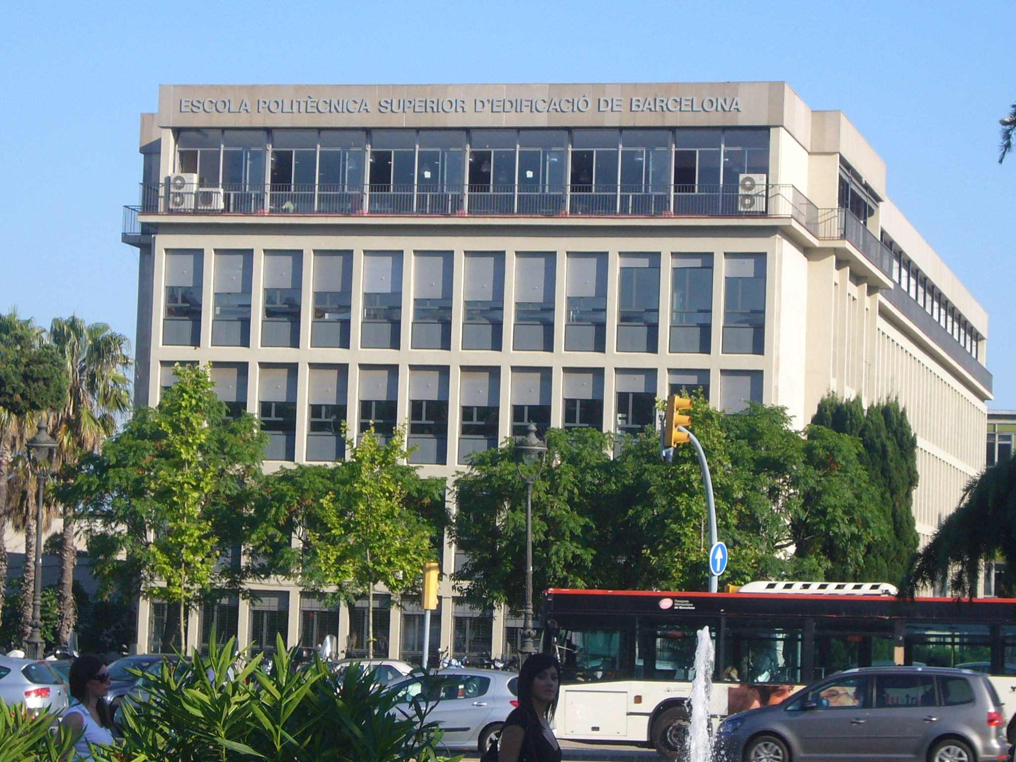 EPSEB (Escola Politècnica Superior d'Edificació de Barcelona) school of Universitat Politècnica de Catalunya. Avinguda Diagonal, Barcelona